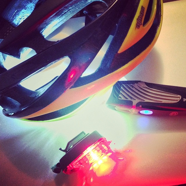 Bicycle Helmet Light and Brake Light 2014-03-31 1396228304